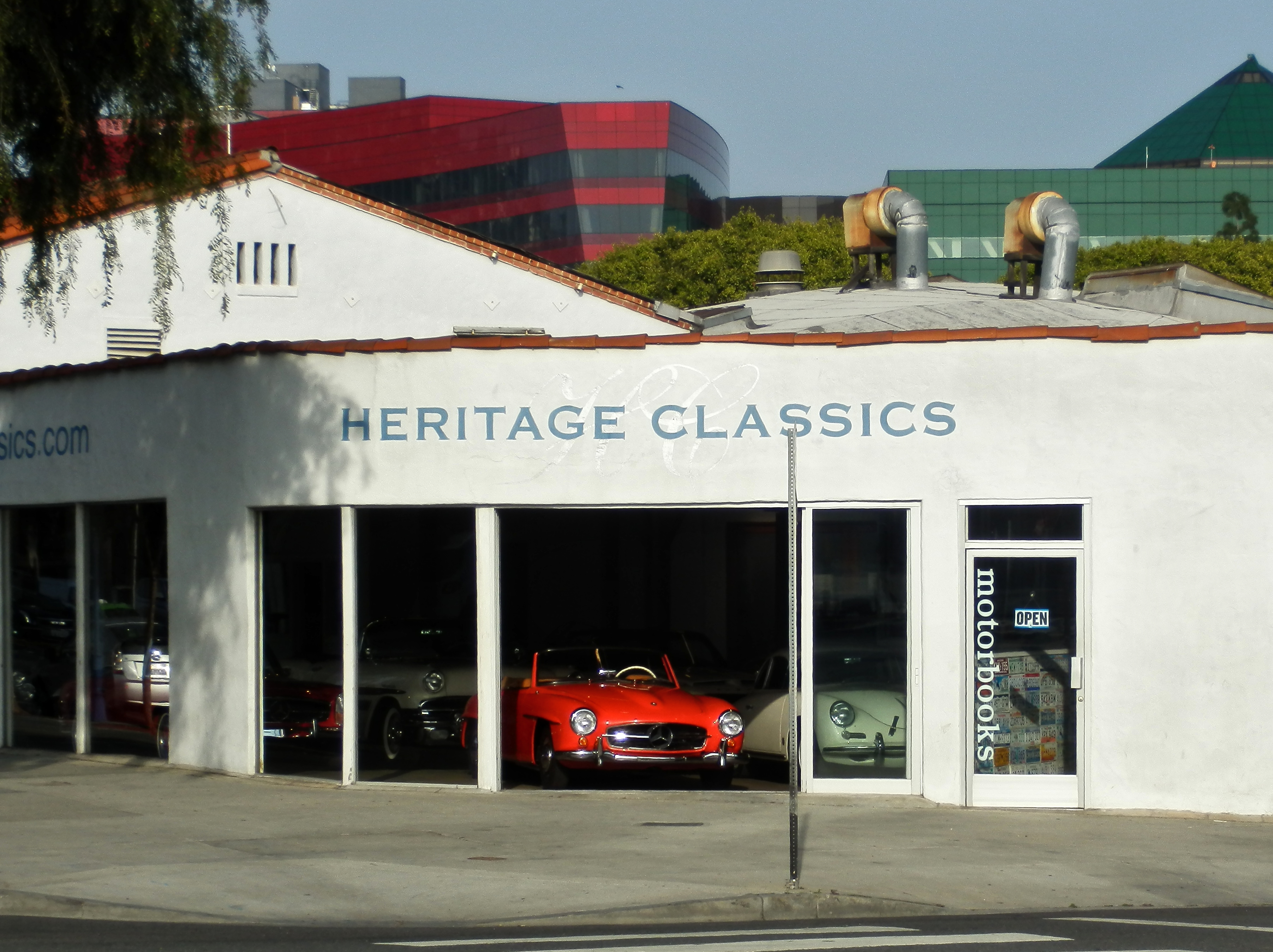 Beverly Hills Heritage Classics